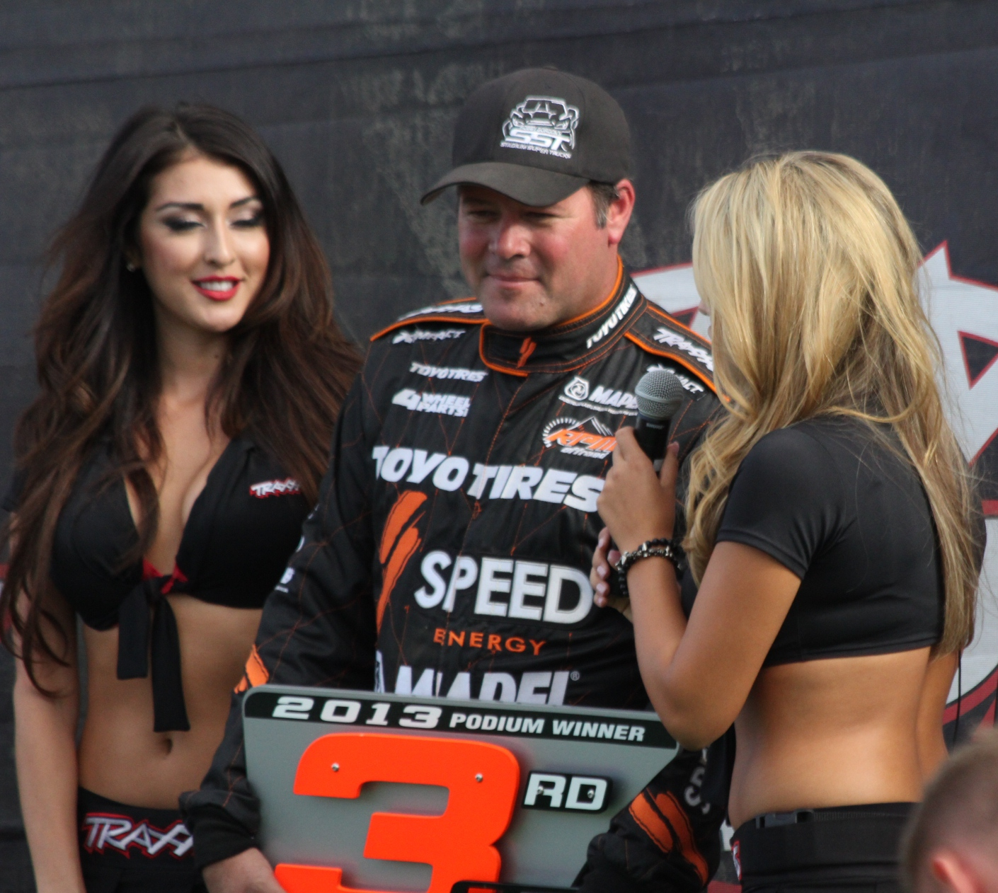 Interviewing the third place finisher Robby Gordon at the Stadium Super Trucks Round 10 at Crandon International Off-Road Raceway.